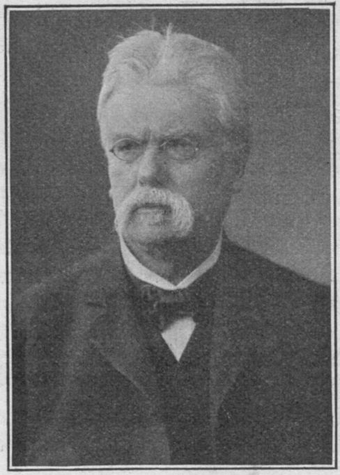 Max Heinze